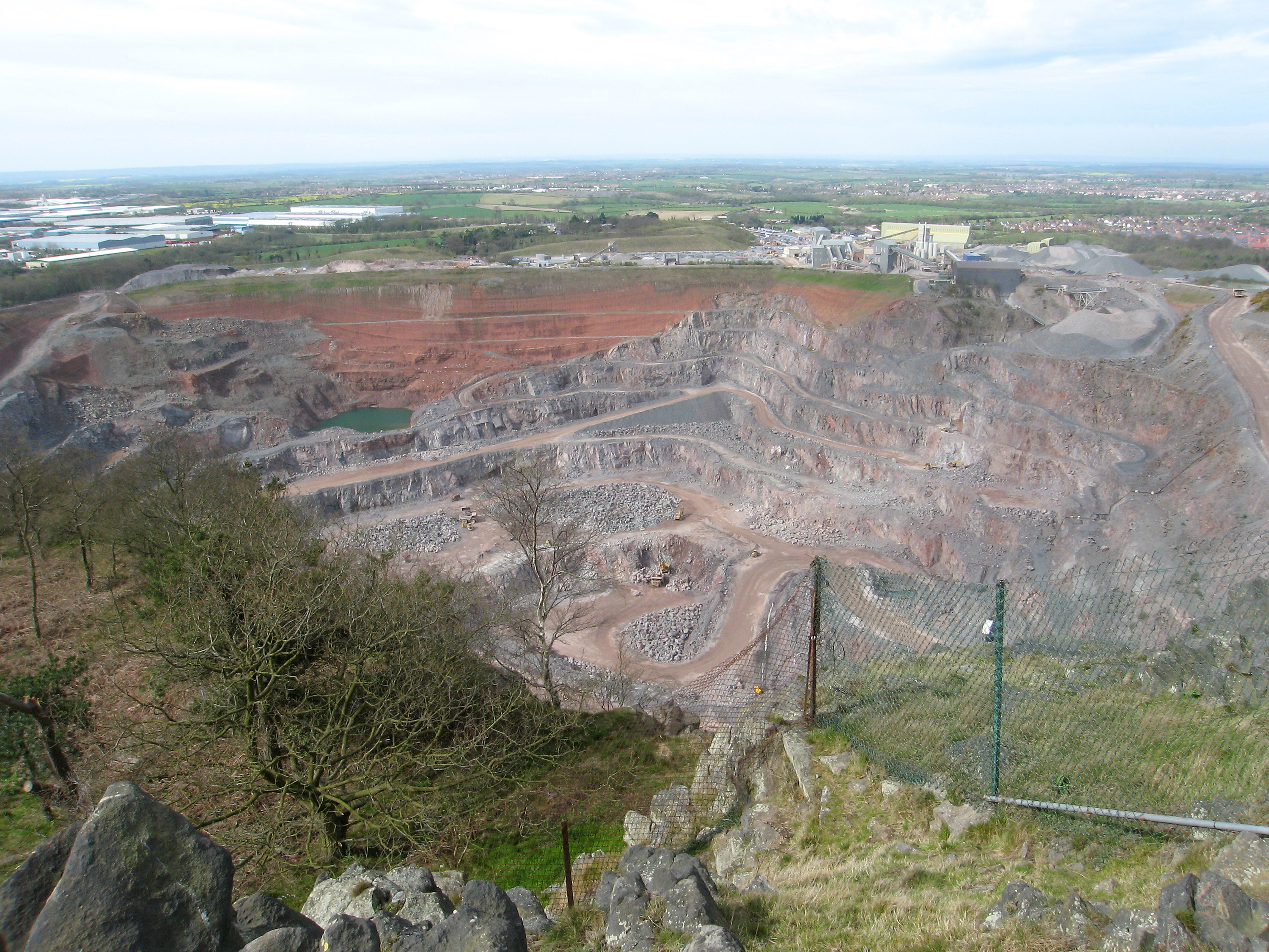 Bardon Hill quarry, from the summit of Bardon Hill, looking west.